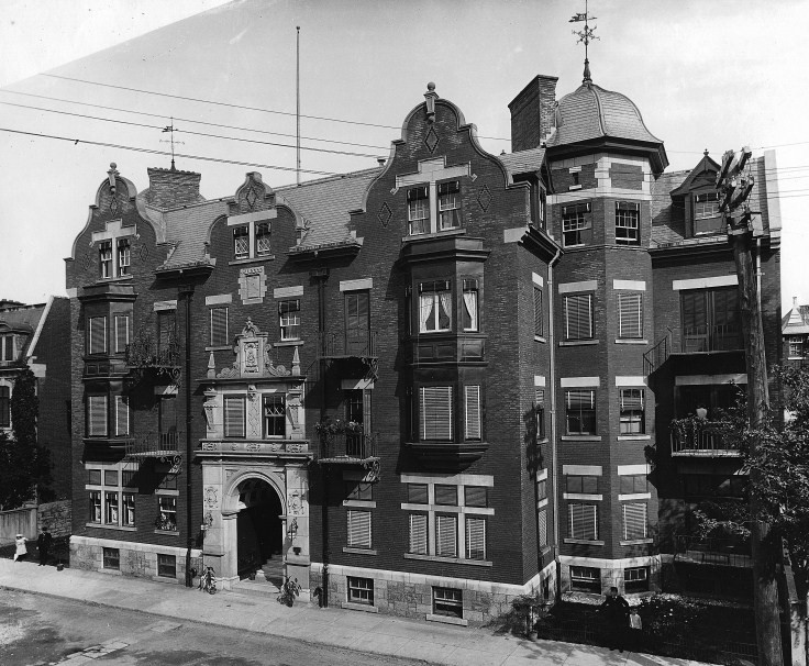 The Marlborough Apartments in 1902, two years after completion. Montreal, Quebec, Canada.